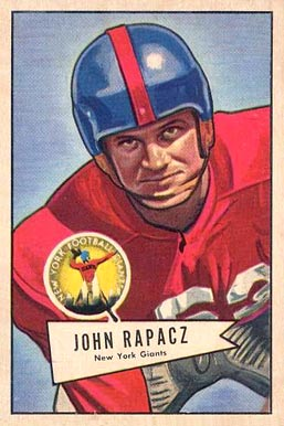 American football player John Rapacz on a 1952 Bowman Large card.